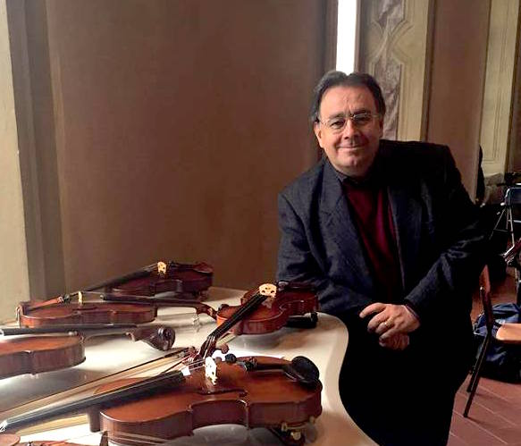 Gilberto Serembe's photograpy